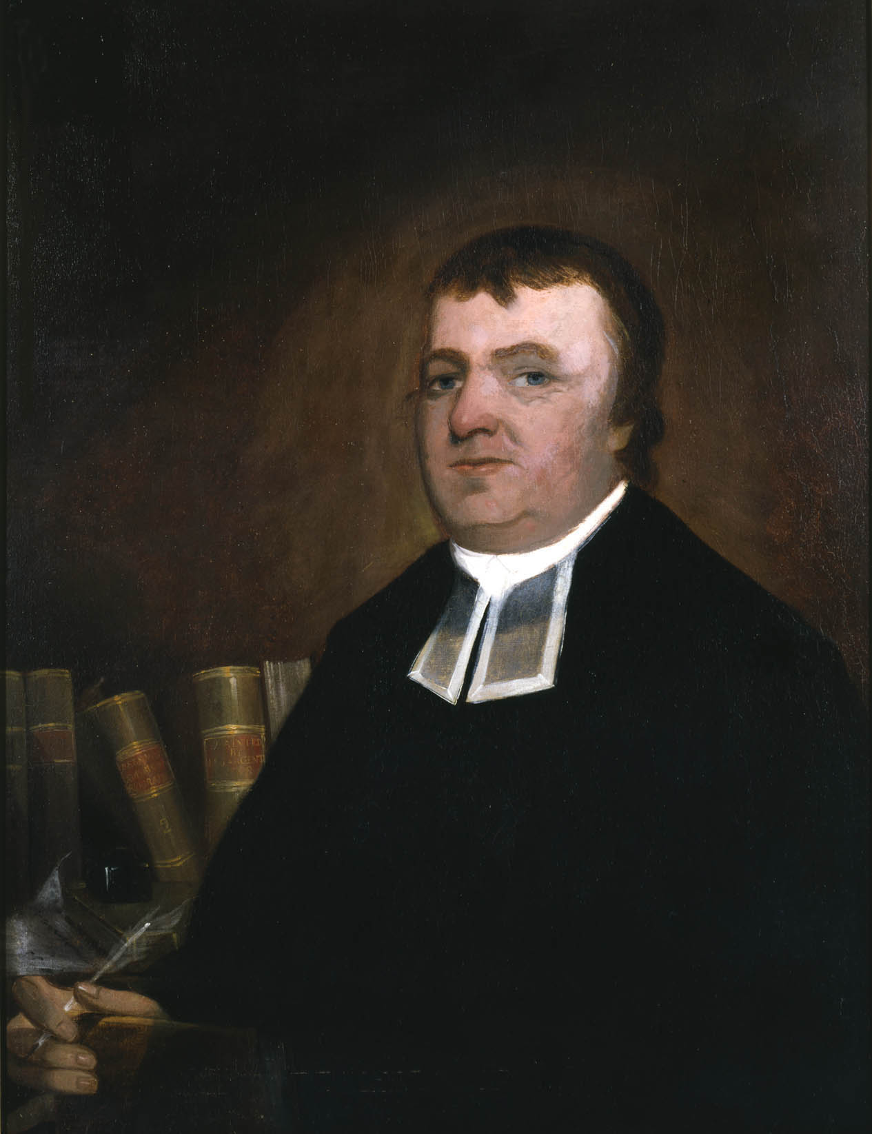 Portrait of clergyman an historian Jeremy Belknap (1744-1798) by Henry Sargent (1770-1845). Oil on canvas, 88,4 cm x 69,3 cm